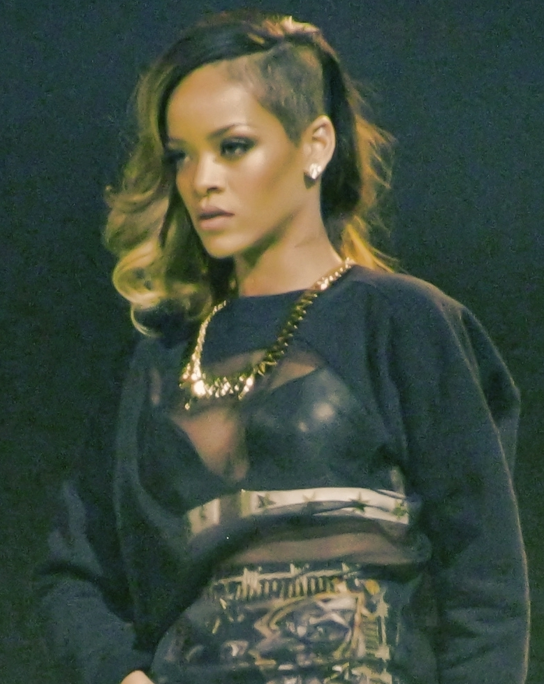 Rihanna performing Diamonds World Tour at the Air Canada Centre, 19 March 2013.